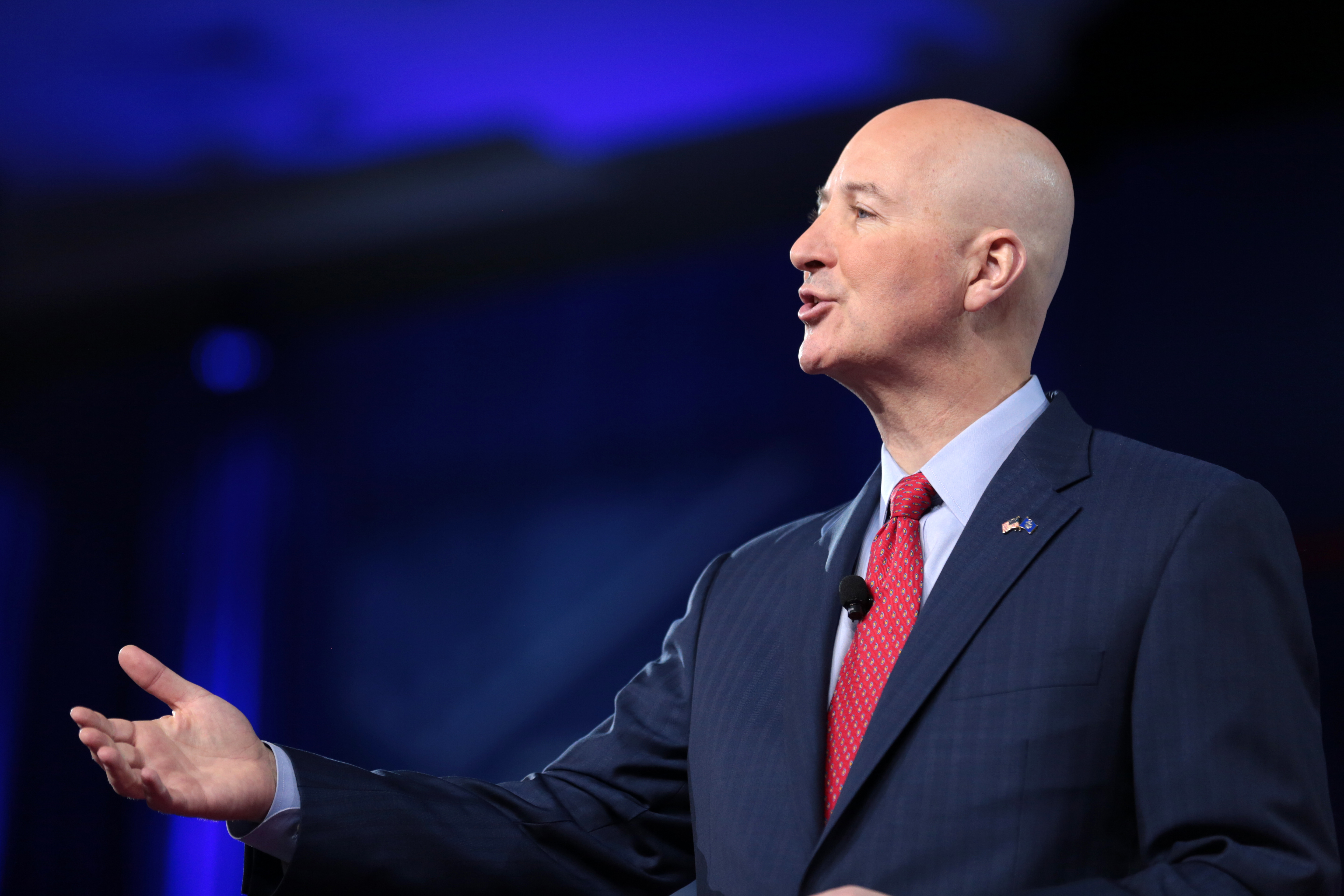 Governor Pete Ricketts of Nebraska speaking at the 2017 Conservative Political Action Conference (CPAC) in National Harbor, Maryland.